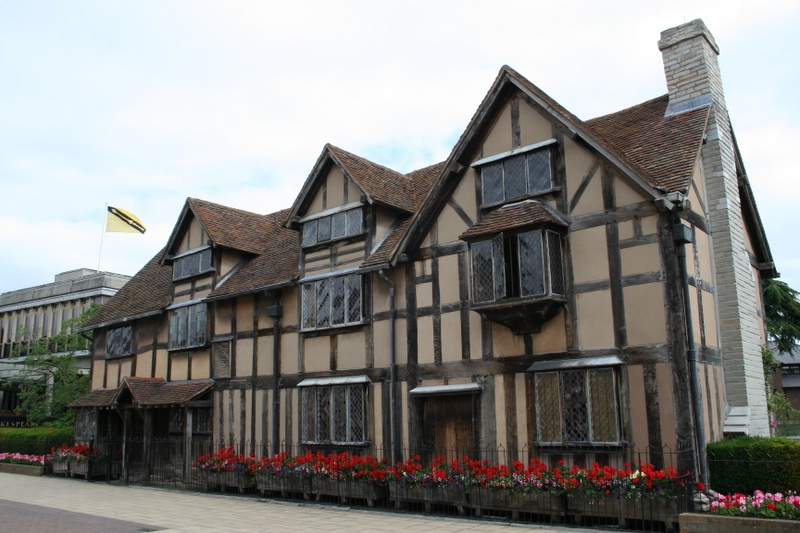 Shakespeare's birthplace, Stratford-upon-Avon, Warwickshire, England.